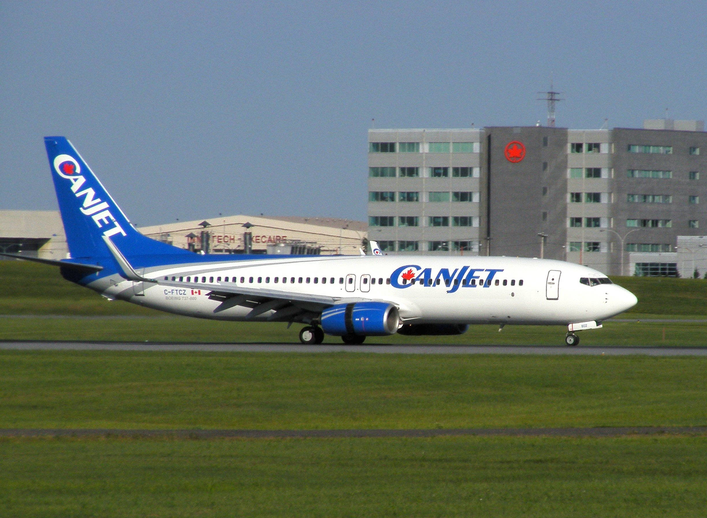 Boeing 737-800 (C-FTCZ) CanJet